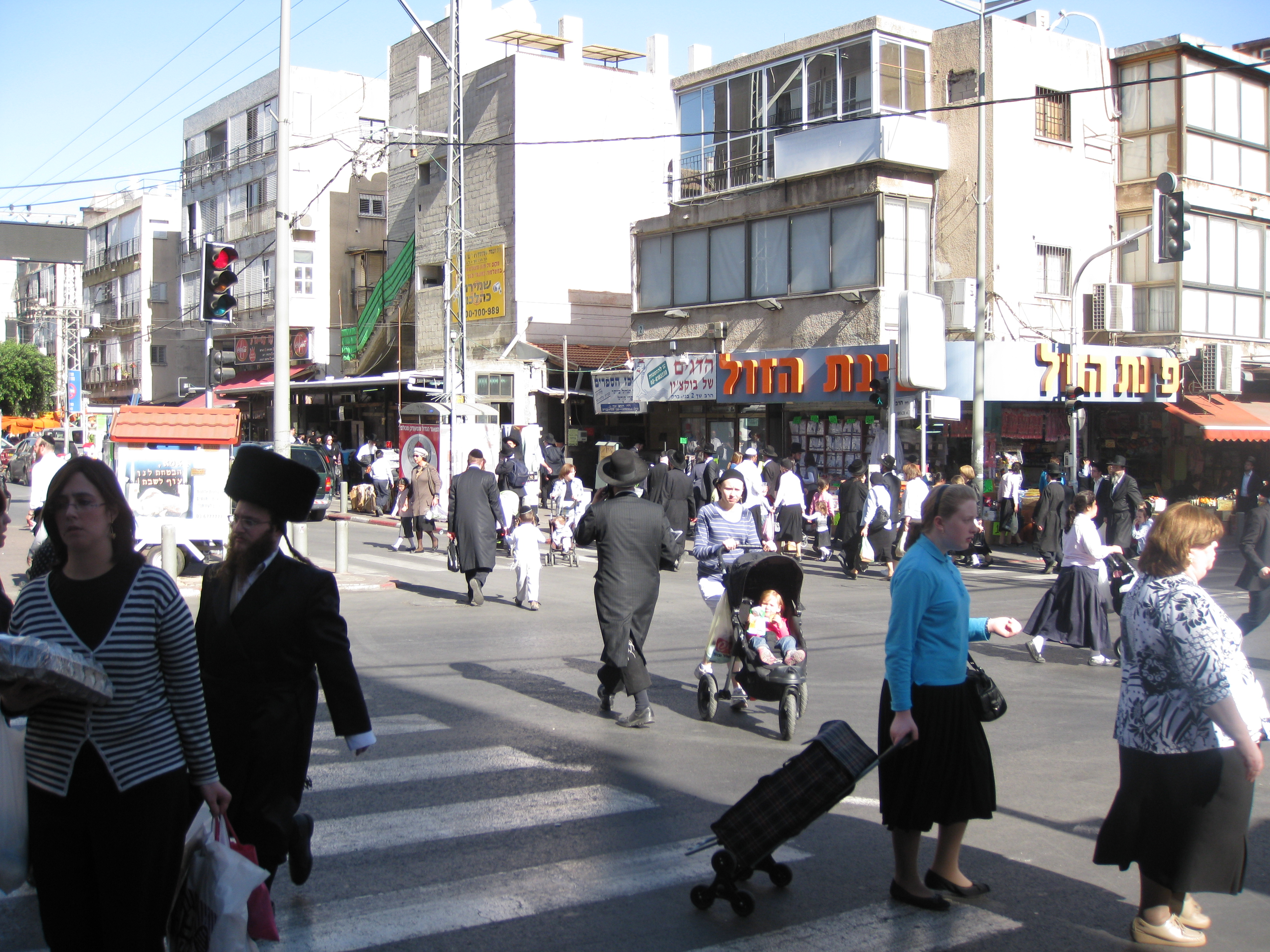 Rabbi Akiva Street, Bnei Brak